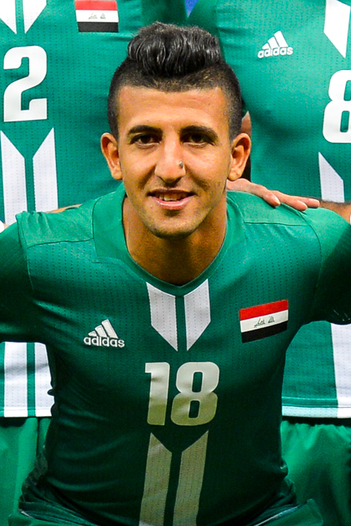 Brazil-Iraq 0:0